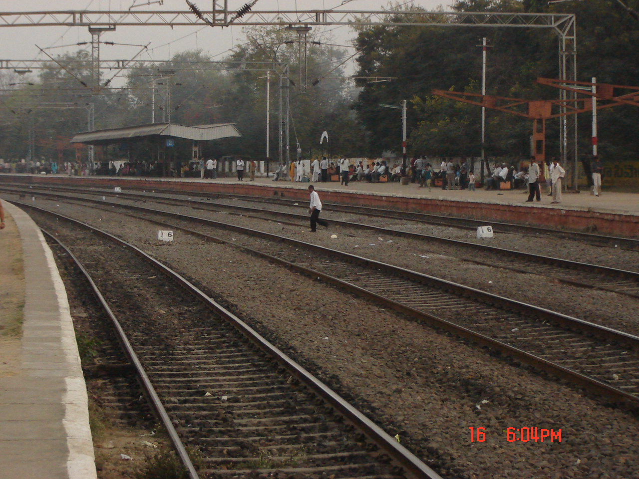 Mahabubabad Railway Station Platform